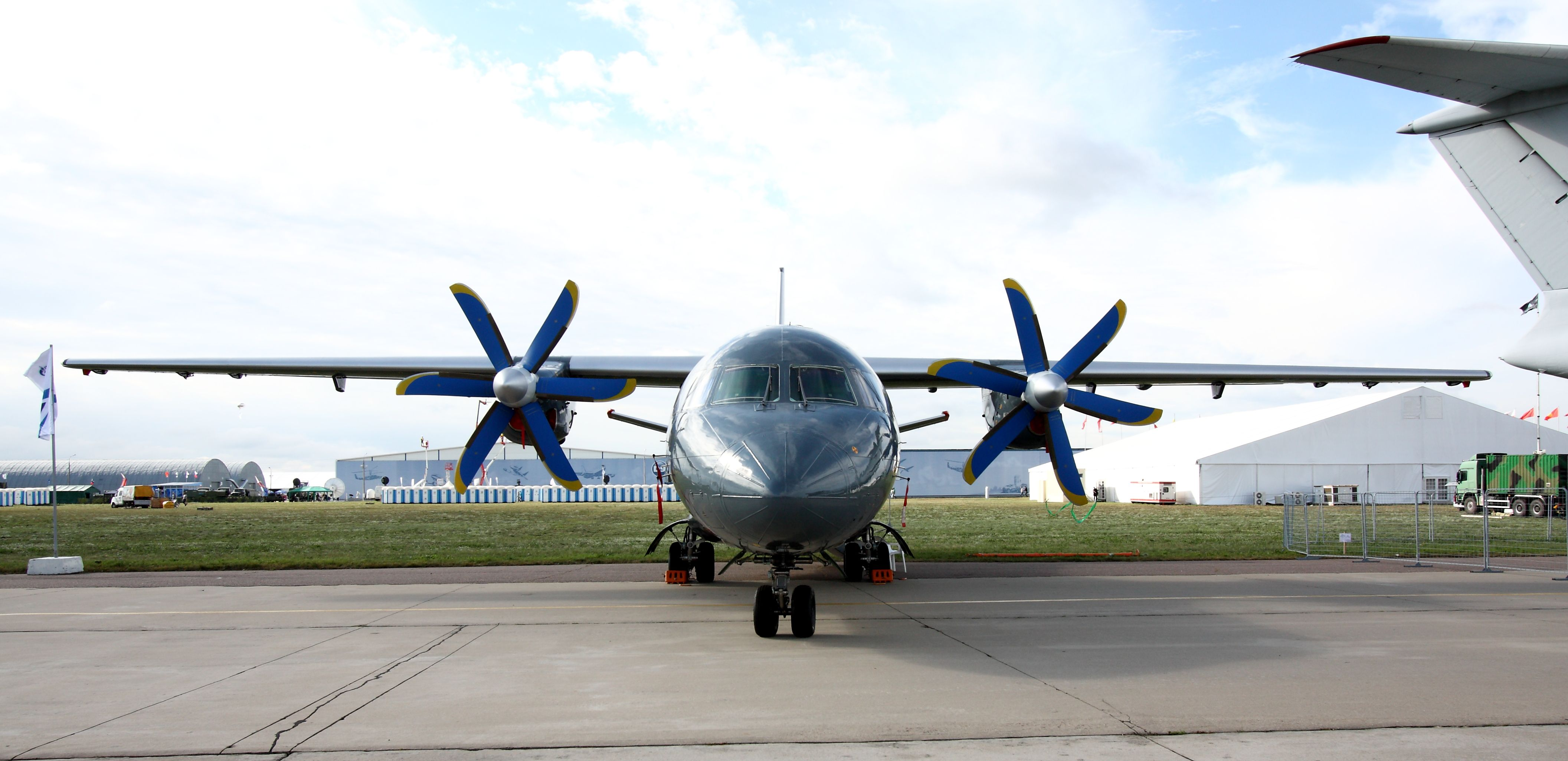 Antonov An-140-100 (The international aerospace salon MAKS-2011)